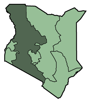 Riftvalley Province of Kenya